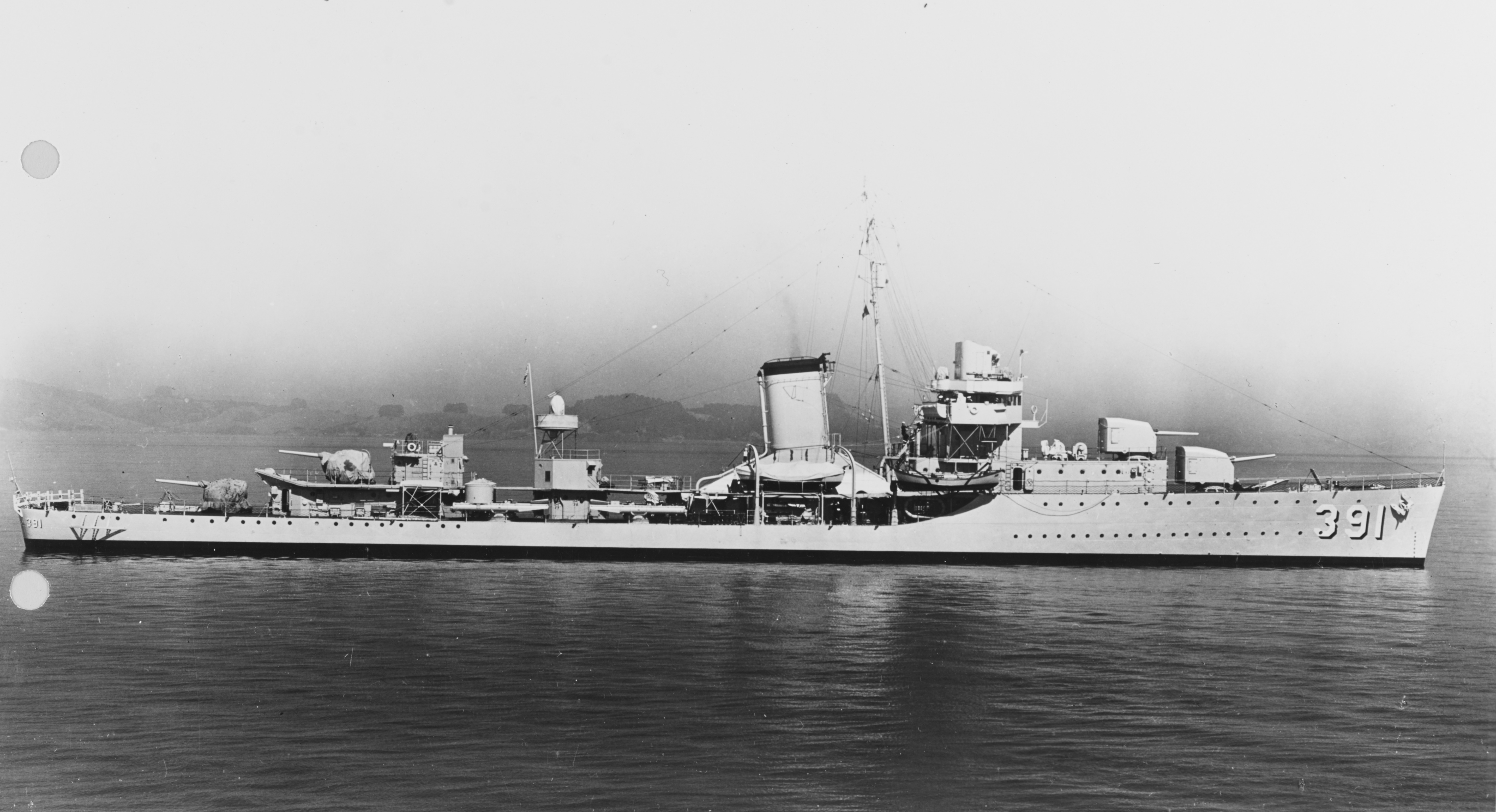 In San Pablo Bay, near the Mare Island Navy Yard, California, 5 October 1937. Photograph from the Bureau of Ships Collection in the U.S. National Archives.